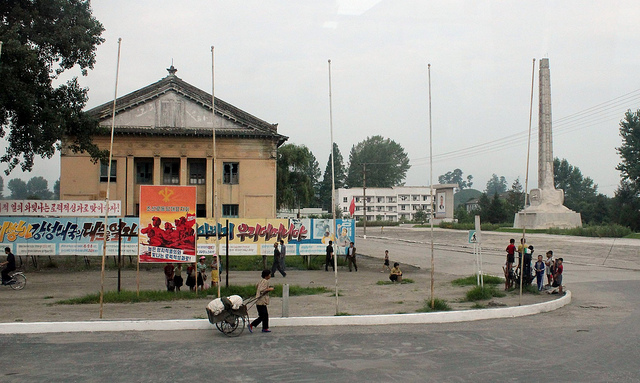 The city center of Kowon North Korea.